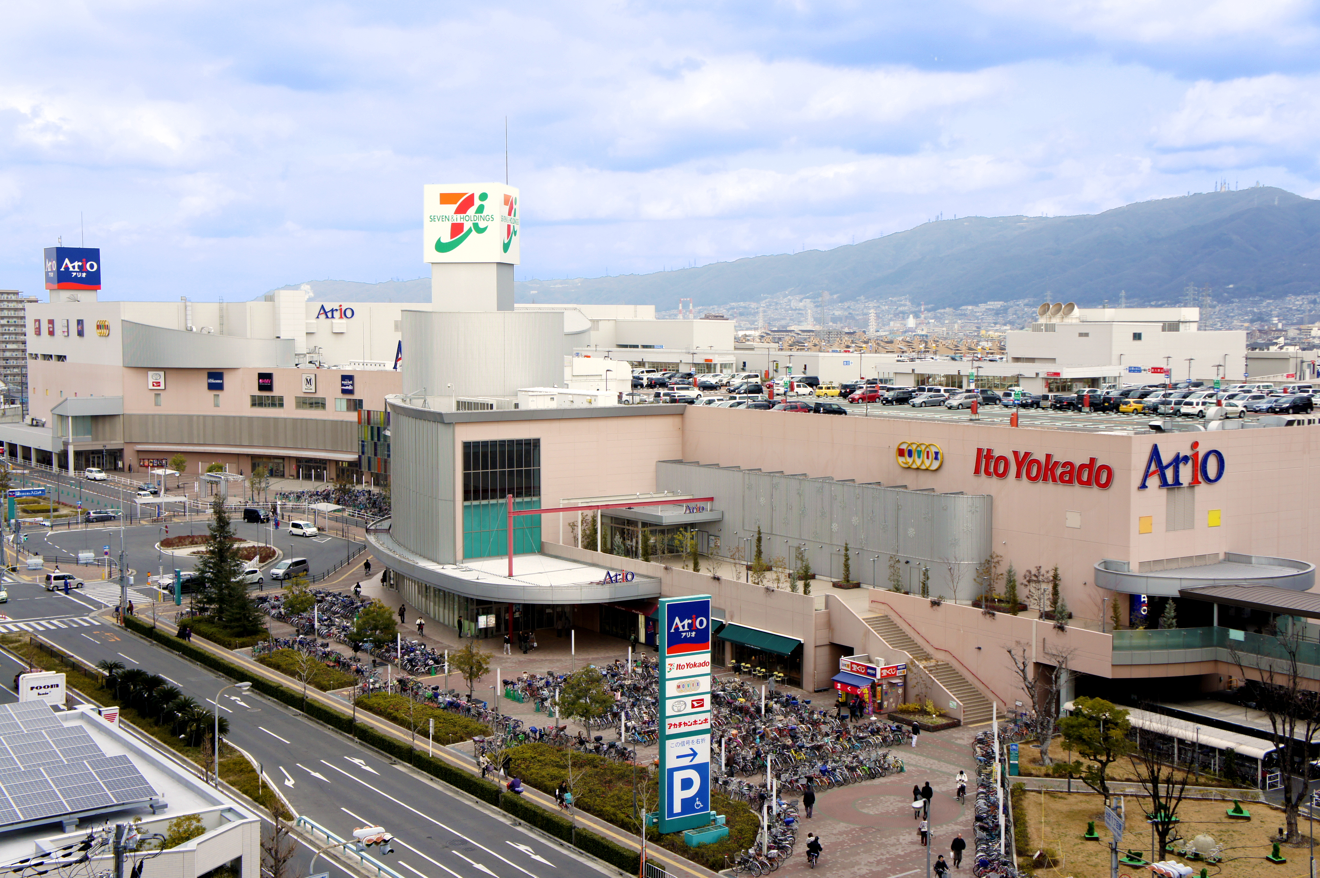 Ario Yao, 2-3 Hikaricho Yao-City Osaka Japan.